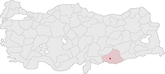 Shows the location of the Şanlıurfa province in North Kurdistan